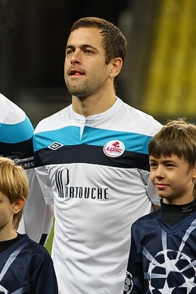 English football player Joe Cole during 2011/2012 Champions League match between CSKA Moscow and Lille OSC